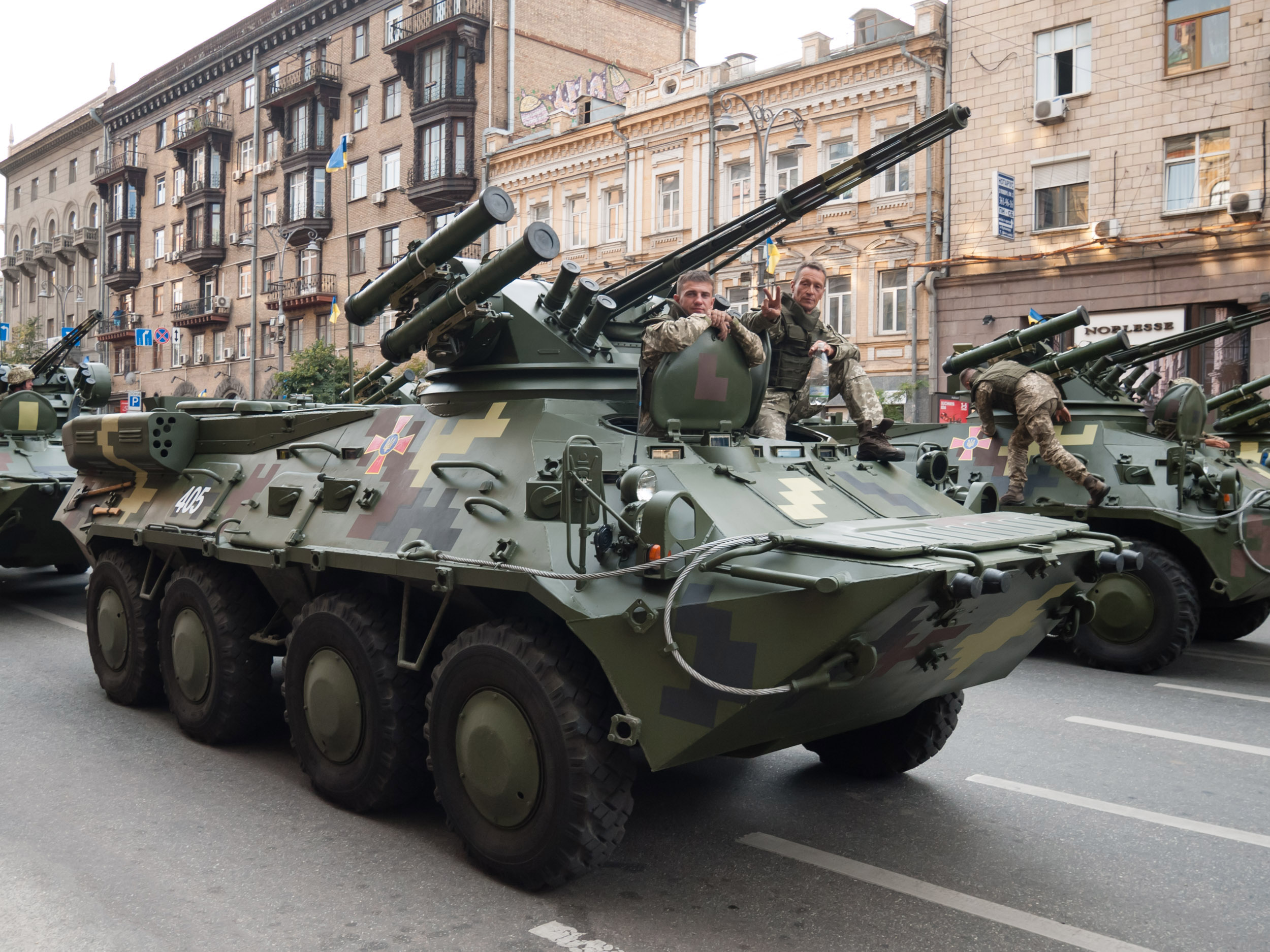 BTR-3 armored personnel carrier, rehearsal for the Independence Day military parade in Kyiv, 2018